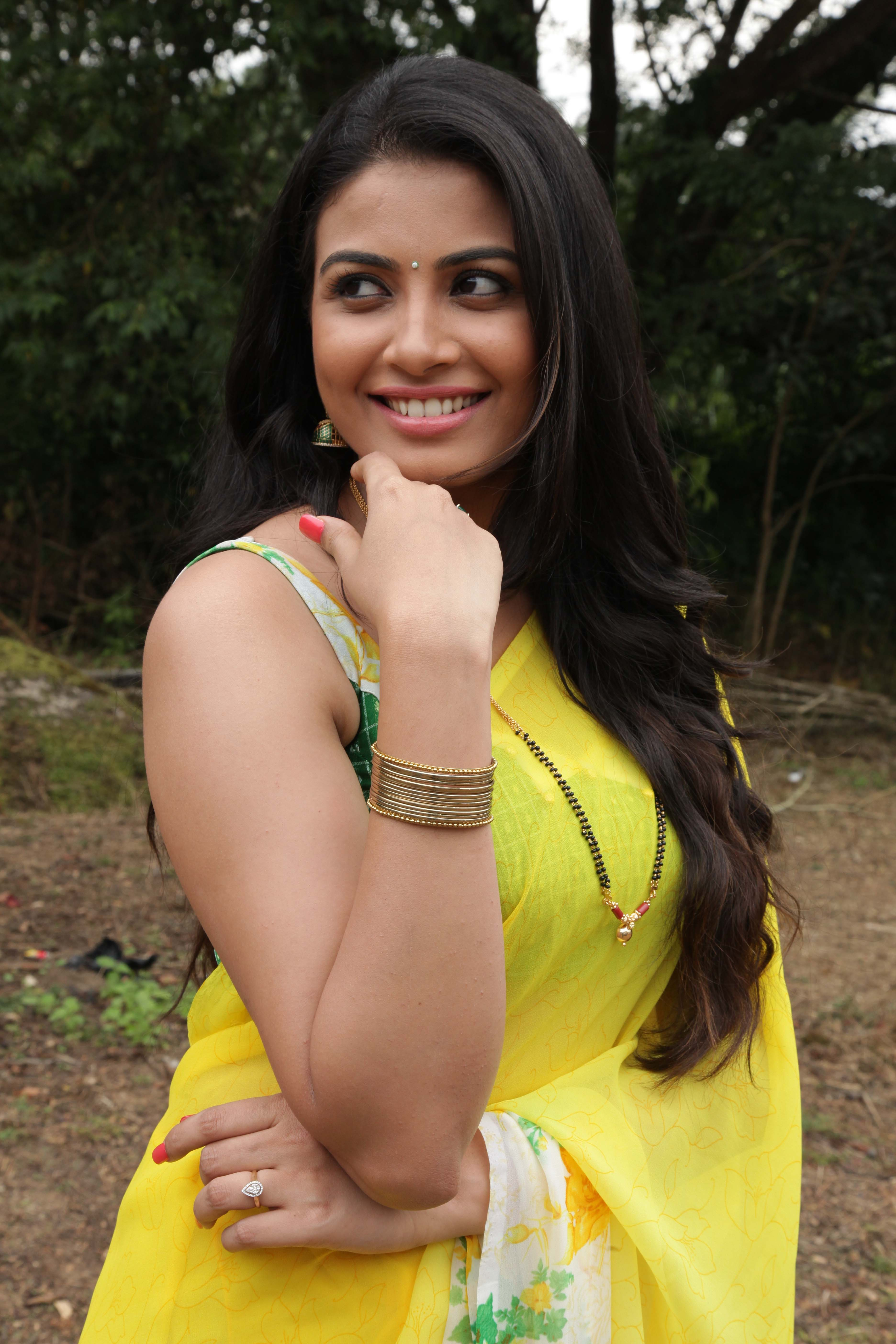 Kavya Shetty during Ishtakamya Shooting